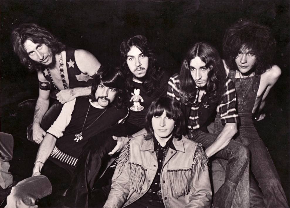 1971 photo of John Wright, Tony Perry, Ian Rutter, Martin Samuel, Jon Newey, John Chichester collectively known as the Crew (band).